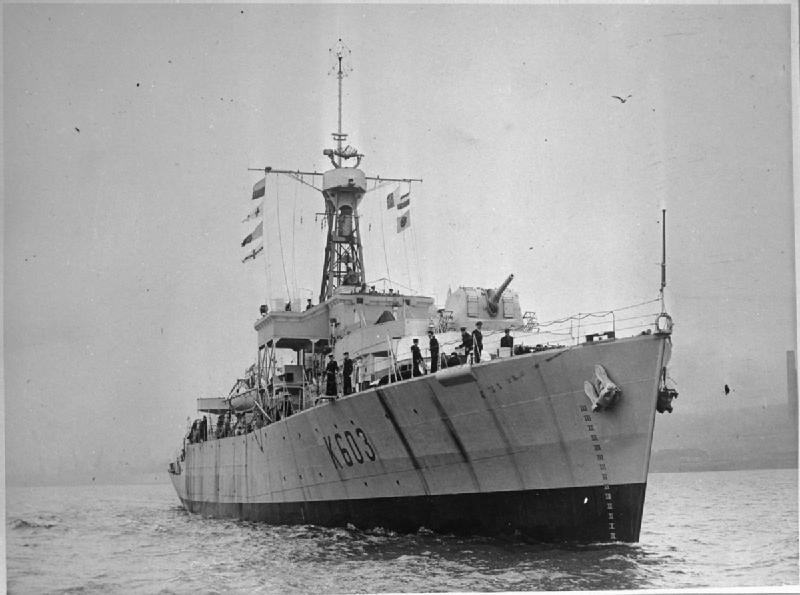 Photograph of British frigate HMS Loch Arkaig, on completion.